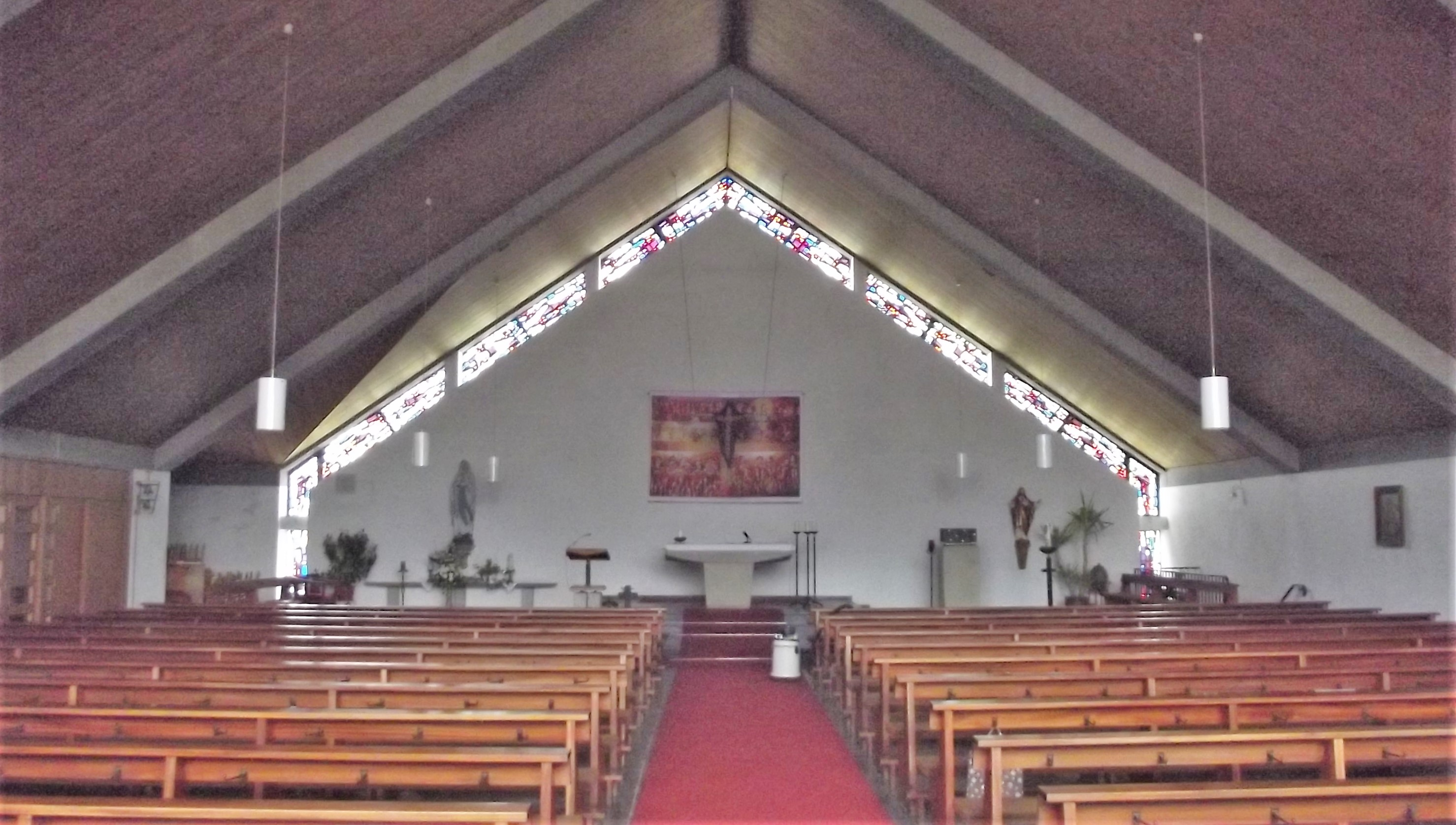 Interior of the roman catholic church in Bierfeld, Saarland